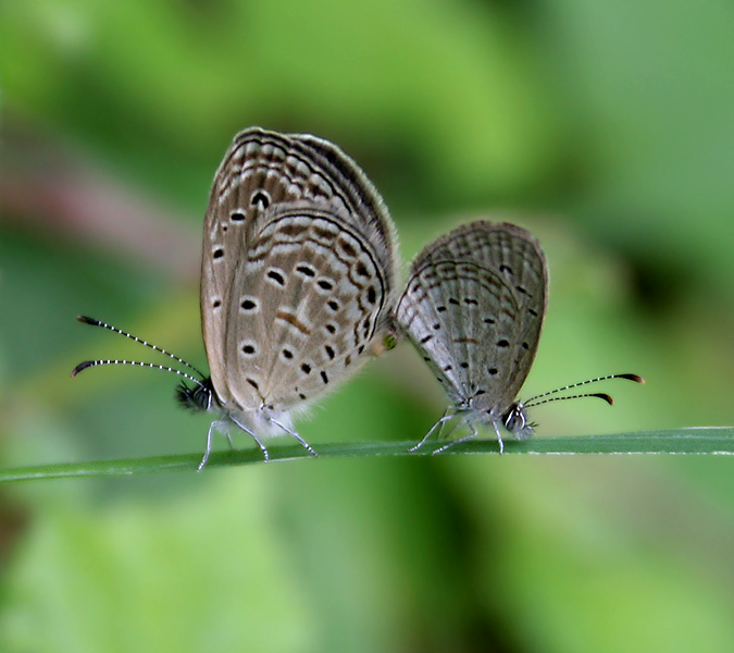 Tiny Grass Blue Zizula gaika in Talakona forest, in Chittoor District of Andhra Pradesh, India.